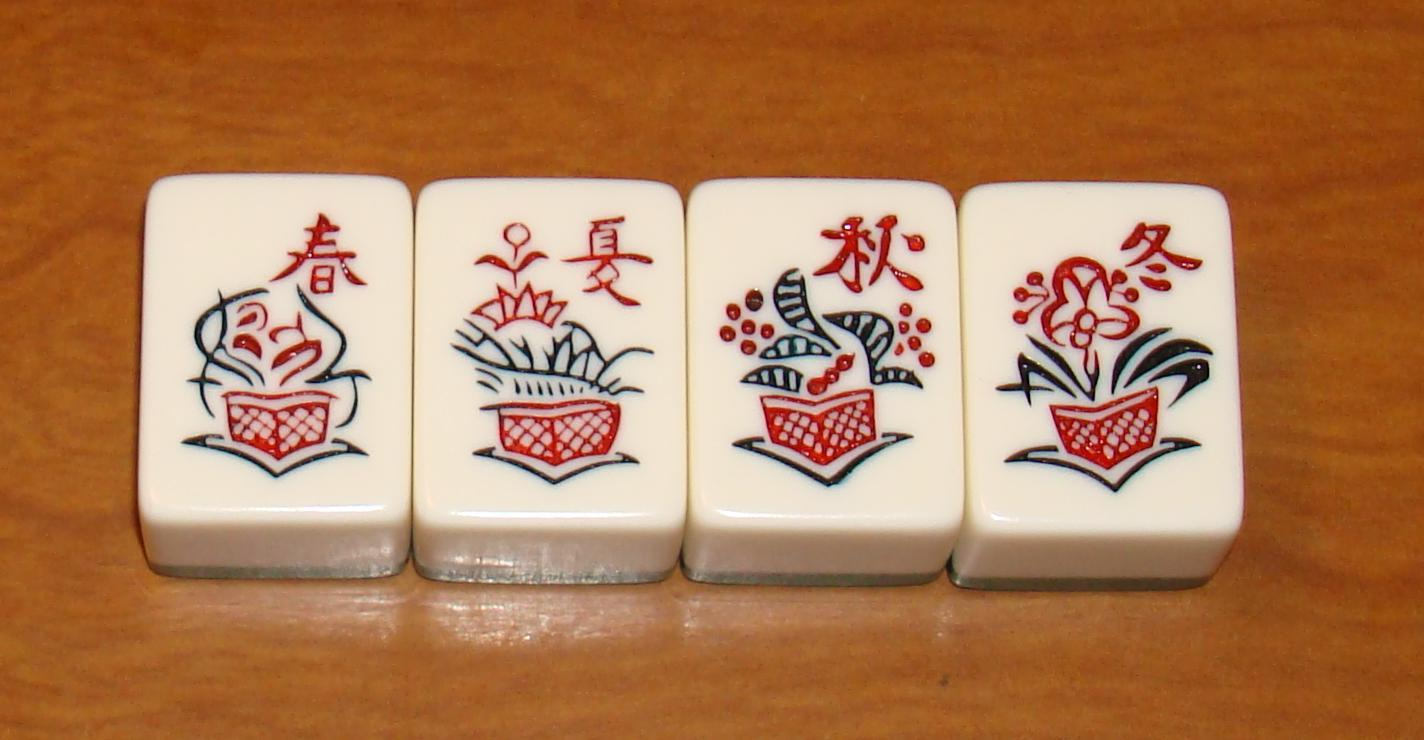 Japanese Flower tiles